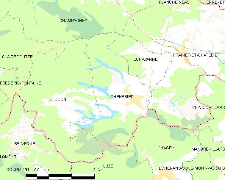 Map of French municipality